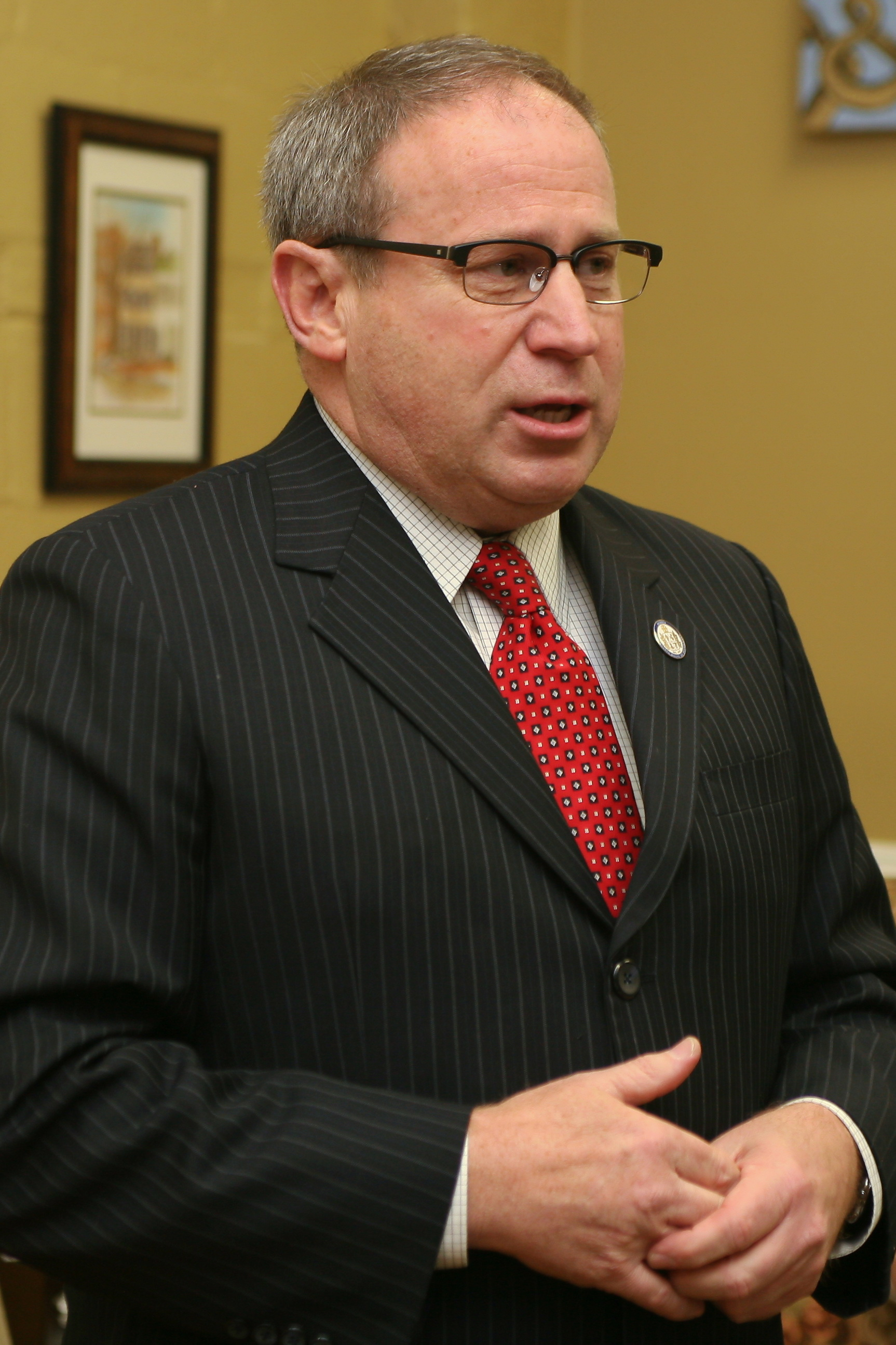 Delegate Mark Sickles, VA's 43rd District